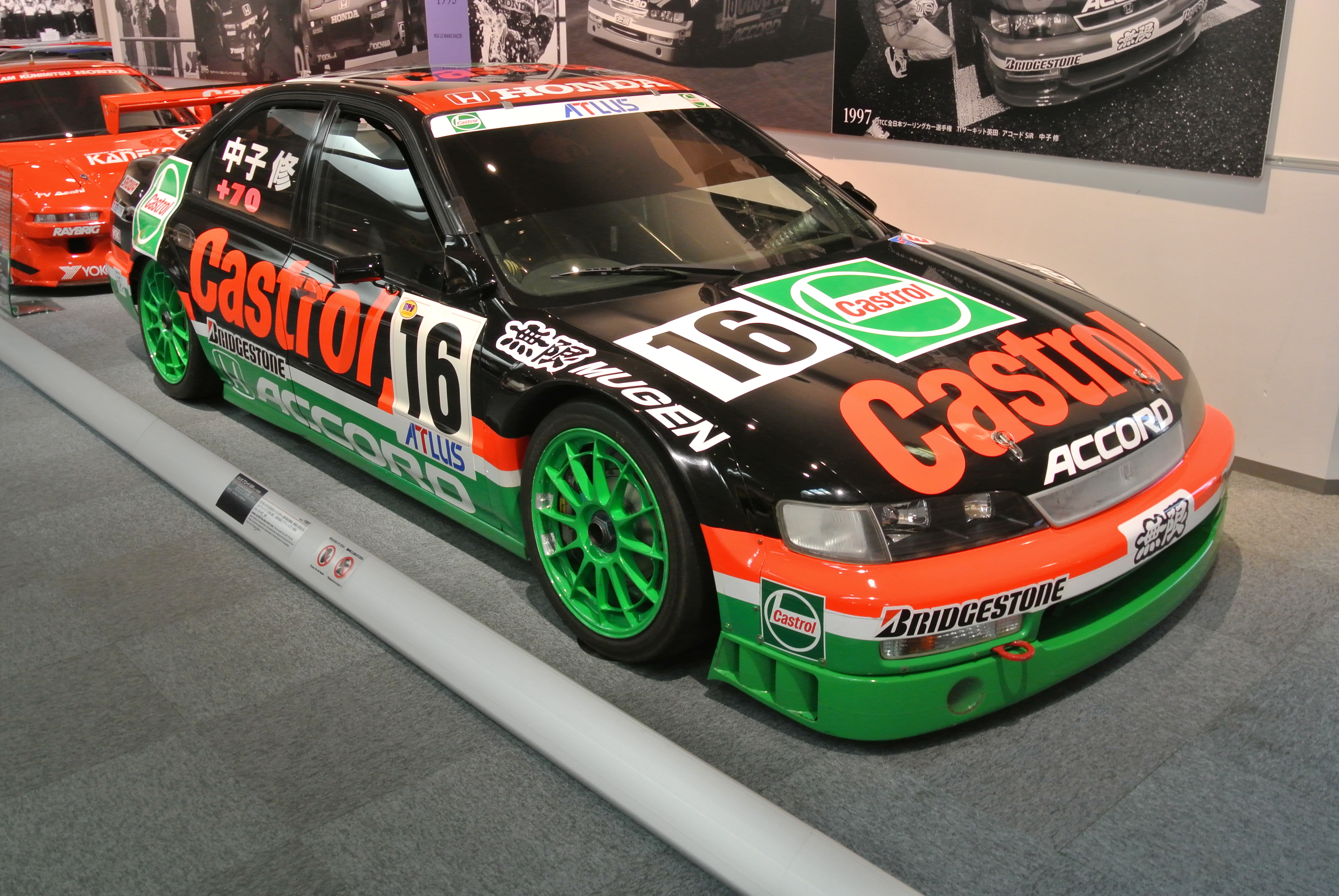 Honda ACCORD SIR in the Honda Collection Hall.